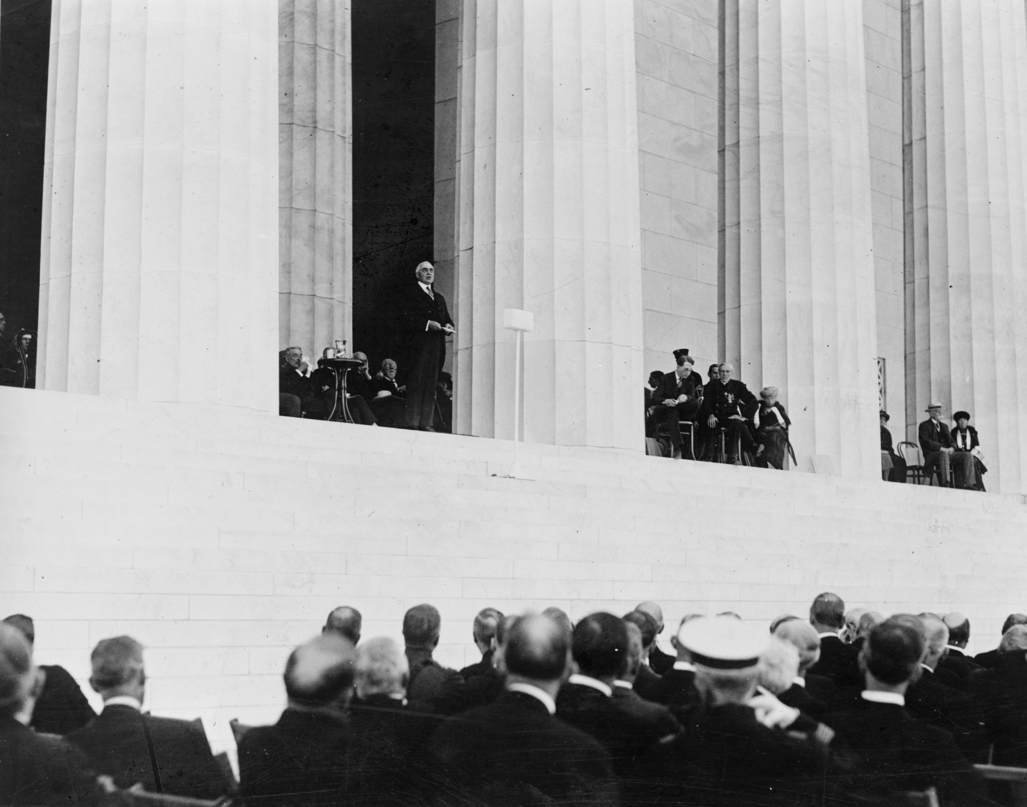 President of the United States Warren G. Harding speaks at the dedication of the Lincoln Memorial